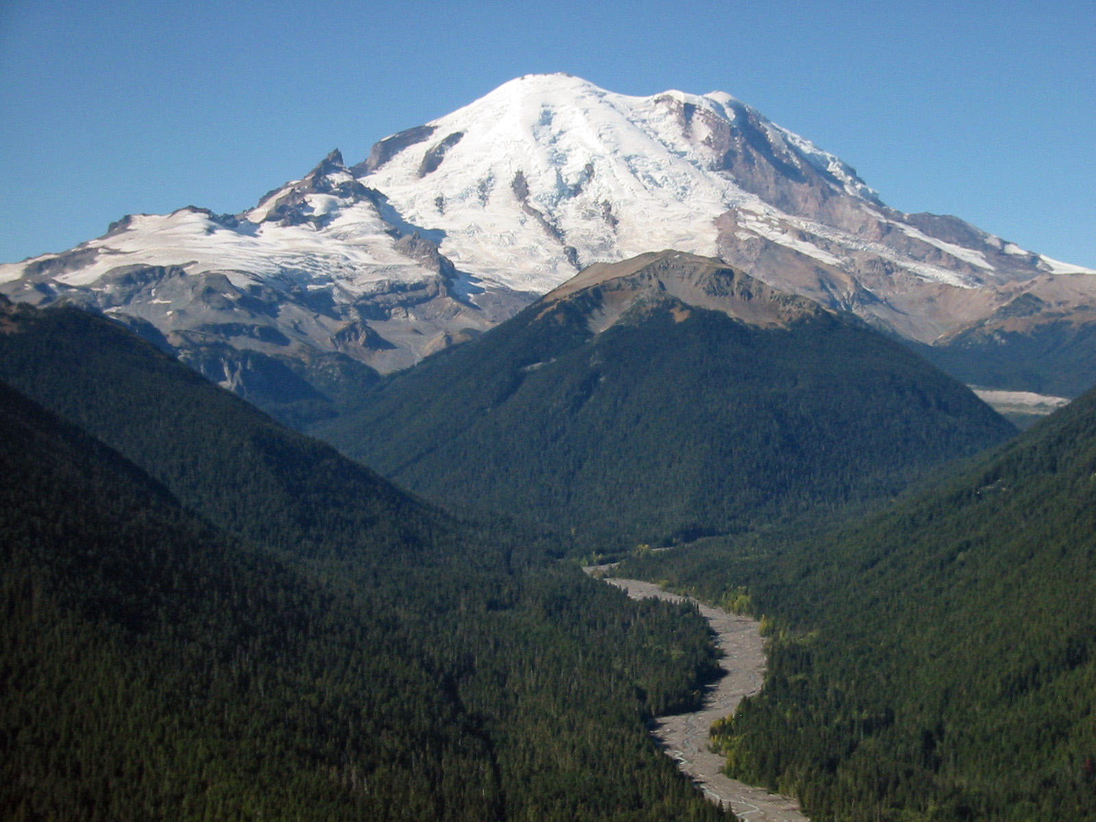 Mount Rainier with its main summit, Columbia Crest (14410 feet) at the center. Liberty Cap (14112 feet) is to the right behind Russell Cliff. Curtis Ridge descends to the right from Russell Cliff. Massive Emmons Glacier covers most of the visible flank of the mountain. Winthrop Glacier flows right along Curtis Ridge and behind shallow Steamboat Prow (9680 feet) with the small Inter Glacier on its northeast face. Ingraham Glacier (left) is between Gibralter Rock (12660 feet) high on the left skyline and Disappointment Cleaver. Left of Gibralter Rock is sharp pointed Little Tahoma (11138 feet) with Frying Pan Glacier on its flank. It is the source of Frying Pan Creek in the valley left of forested and rounded Goat Island Mountain, in front of the Emmons Glacier. It flows into the White River which comes from the Emmons Glacier and flows around the right side of Goat Island Mountain.